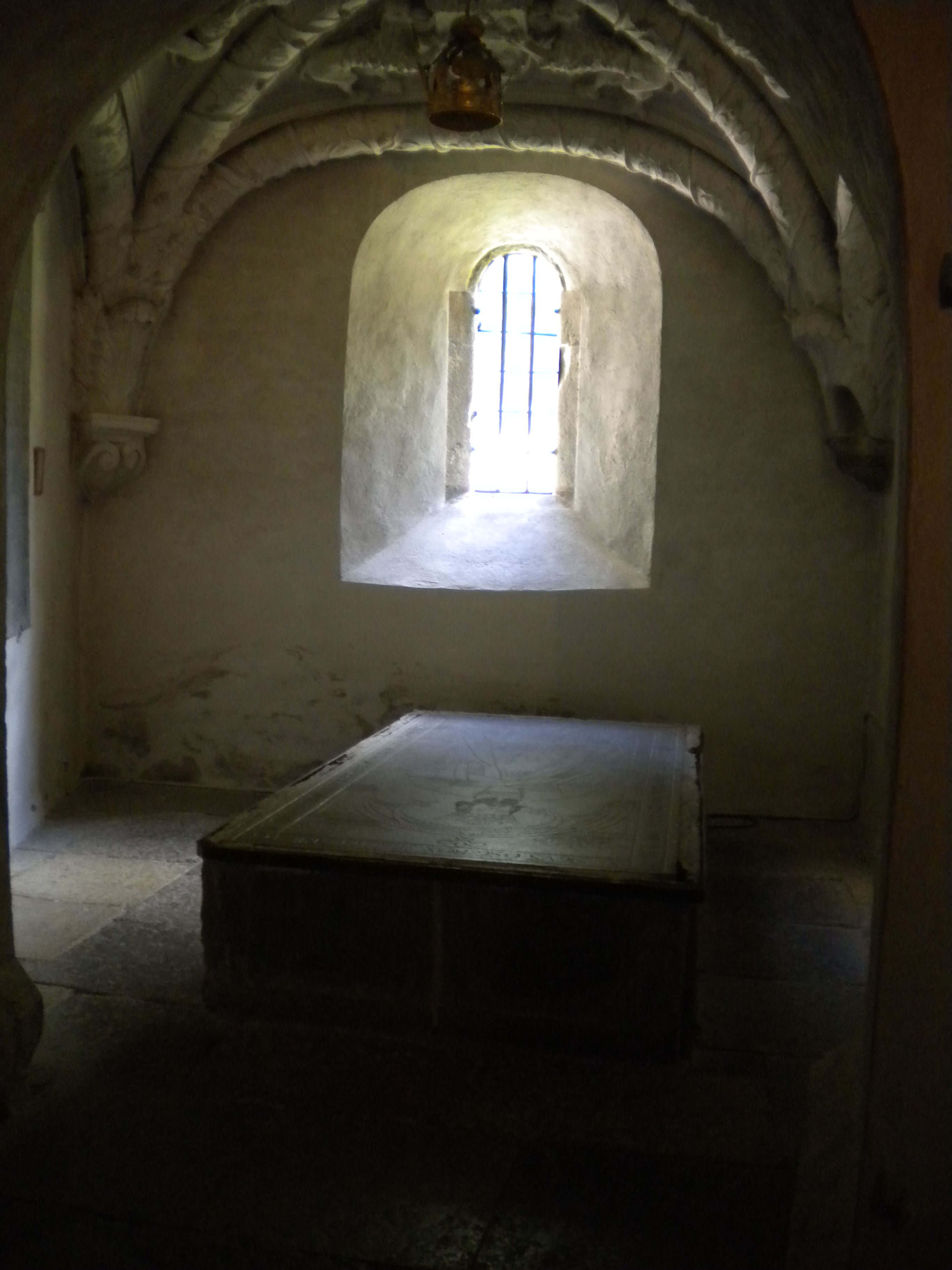 False grave of King Ingi the Elder (16th century fantasy by King John III)Place: Varnhem Church, Axvall, Sweden